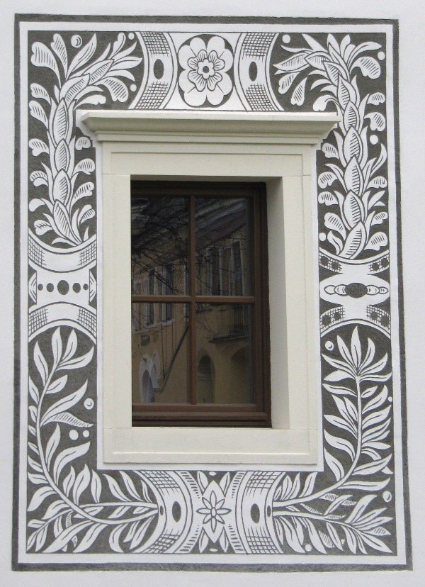 Wedding palace Bytča, window detail